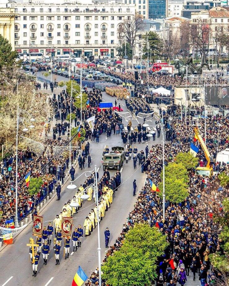 The state funeral Procession through Bucharest of the late king Michael I of Romania